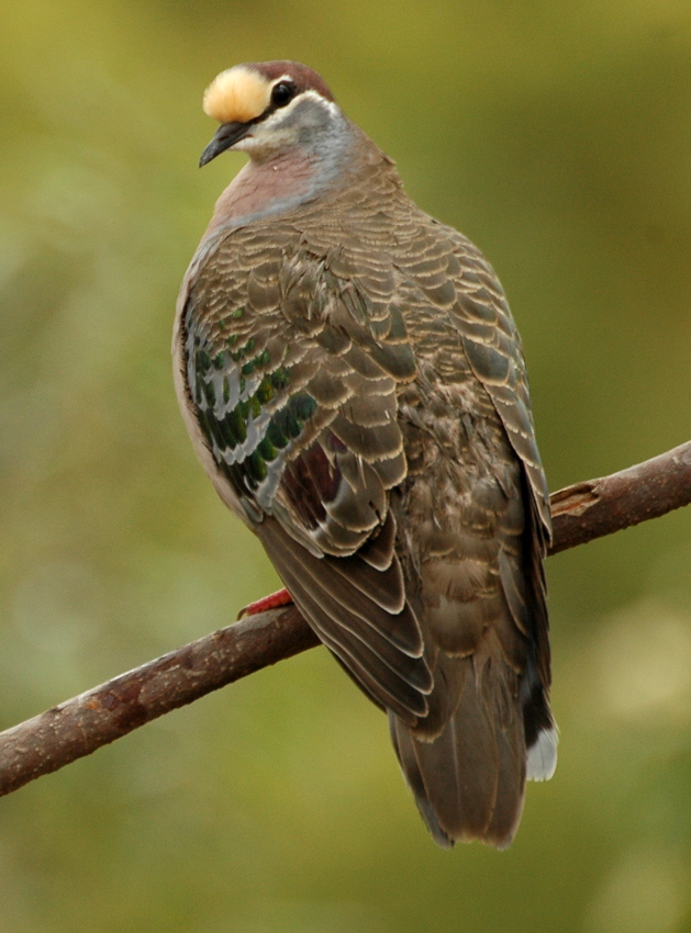 Common Bronzewing (Phaps chalcoptera) Kobble Creek, South-east Queensland, Australia